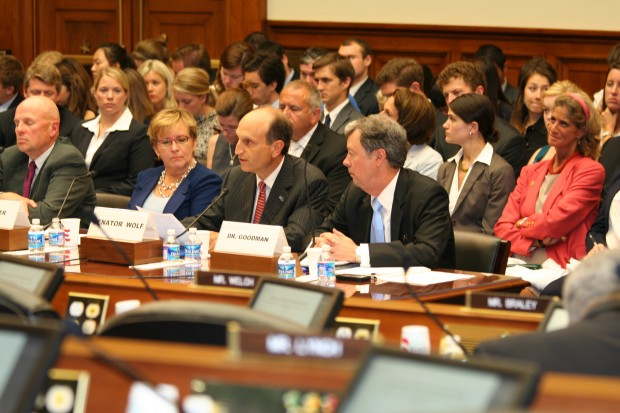 Senator Dan Wolf testifies before the United States House Committee on Oversight and Government Reform on July 10, 2012.